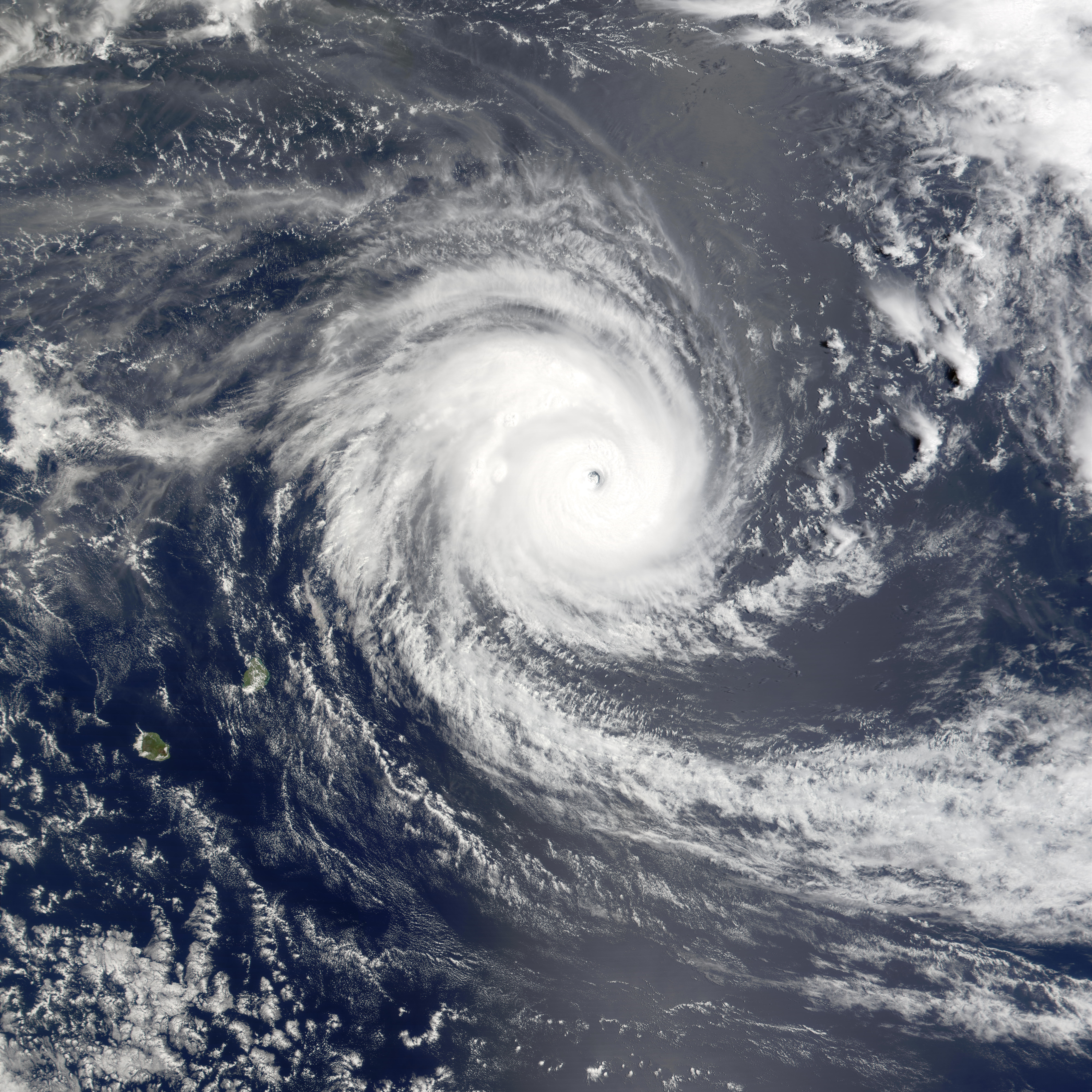 This MODIS image shows Tropical Cyclone 10S (Dina) northeast of Mauritius and Reunion Islands in the Indian Ocean. This image was captured on January 20, 2002.